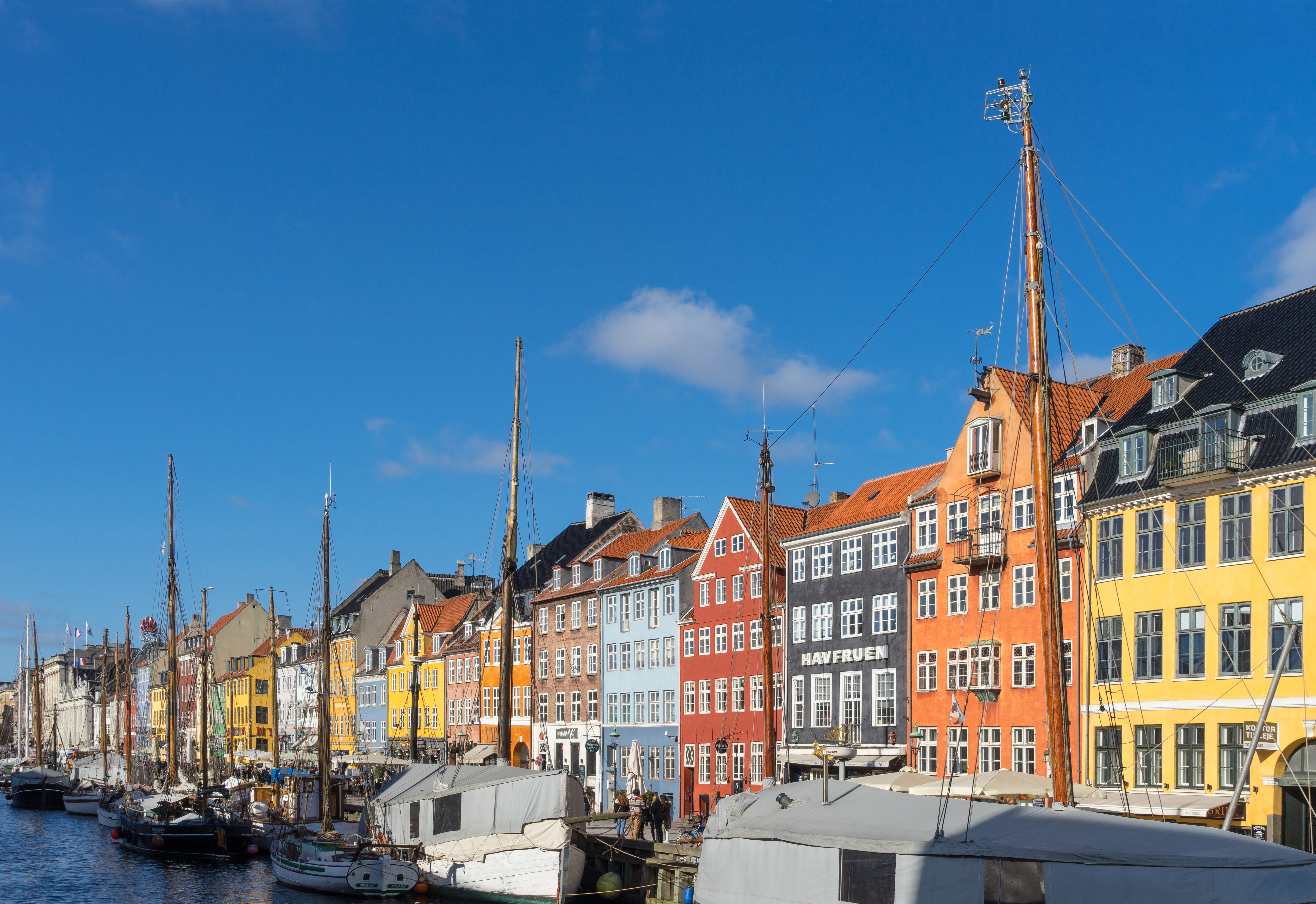 Facades of Nyhavn, northern side, Copenhagen, Denmark